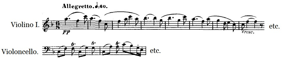 Themes from the fifth movement of Ludwig van Beethoven's Symphony No. 6 in F major (Pastoral)